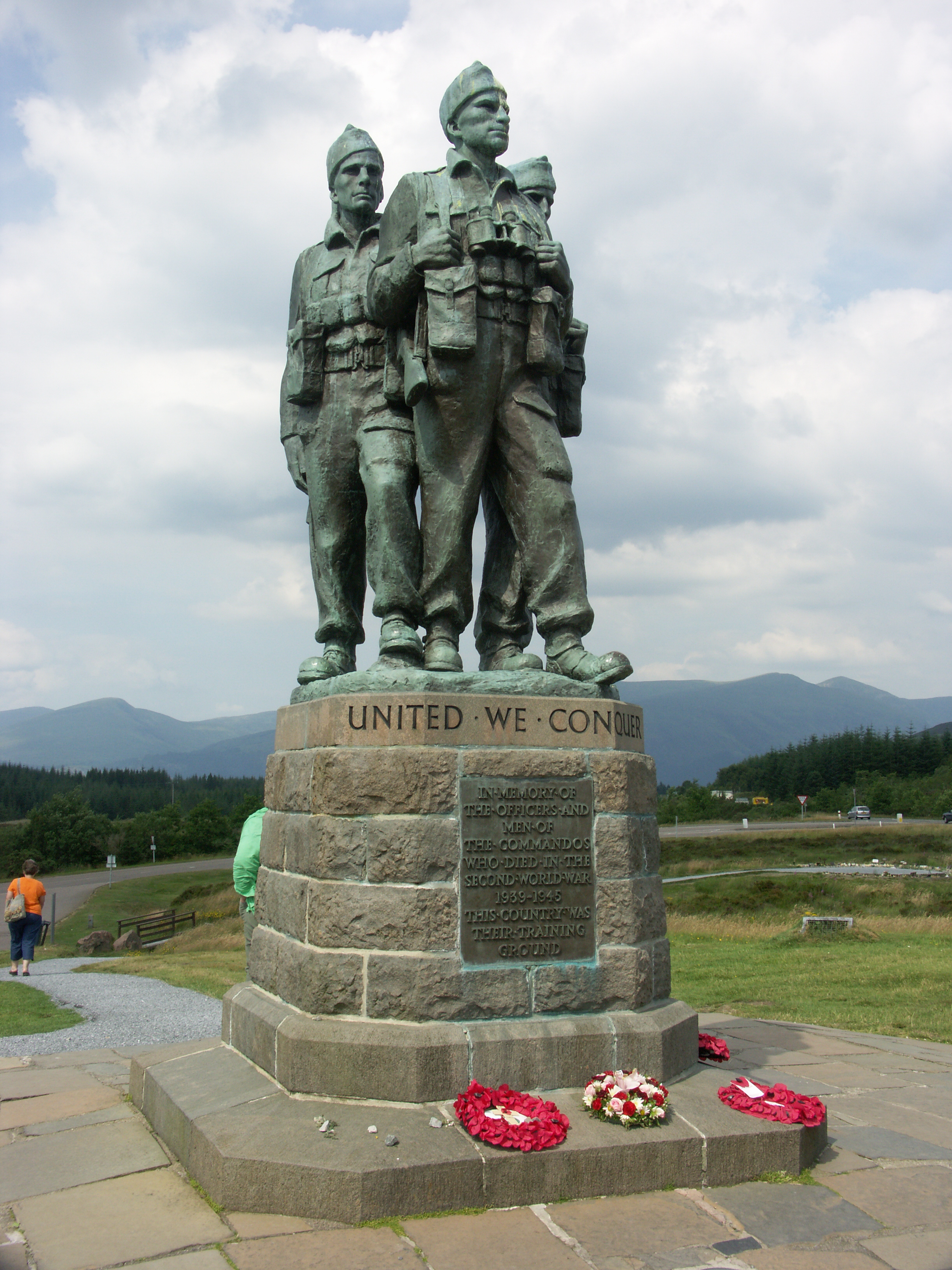 The Commando Memorial, Spean Bridge. Near the village of Spean Bridge, at the junction of the main A82 and the B8004 leading towards Achnacarry. The 17 foot high memorial statue was designed by Scott Sutherland from Duncan of Jordanstone College of Art Dundee in en:1949 and dedicated to the Commandos by Queen Elizabeth, the Queen Mother on en:12 September en:1952 [1].